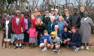 Photo of the first team to Swaziland NEG 2004 taken by Melissa Powell